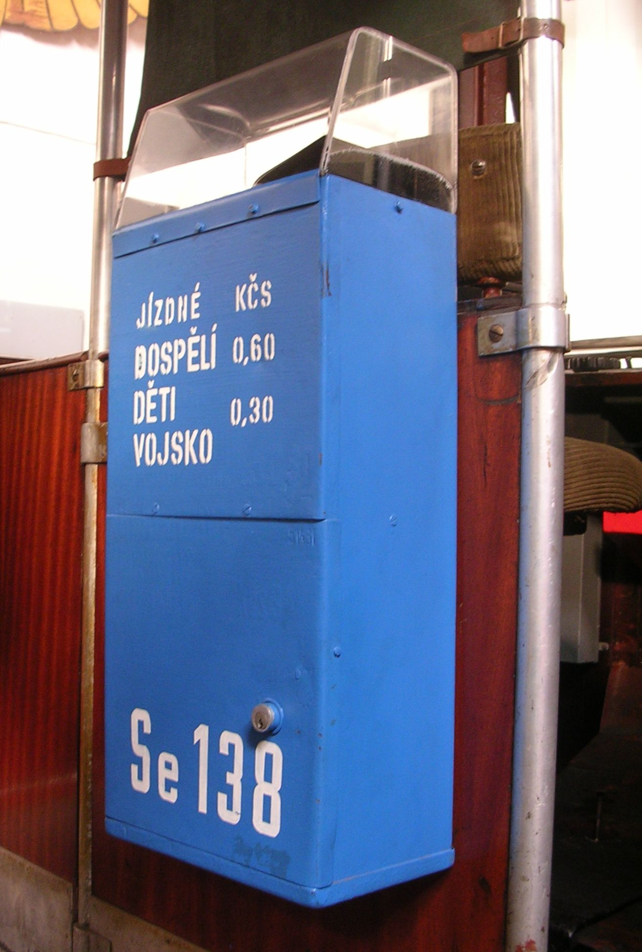 Střešovice, Prague, the Czech Republic. A fare box in a historical tram.